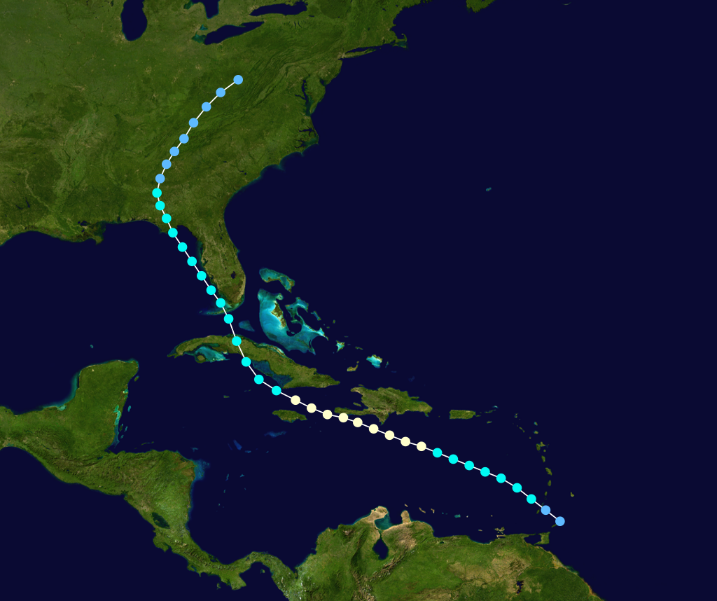 1928 Atlantic hurricane 2 track.png track. Uses the color scheme from the Saffir-Simpson Hurricane Scale.